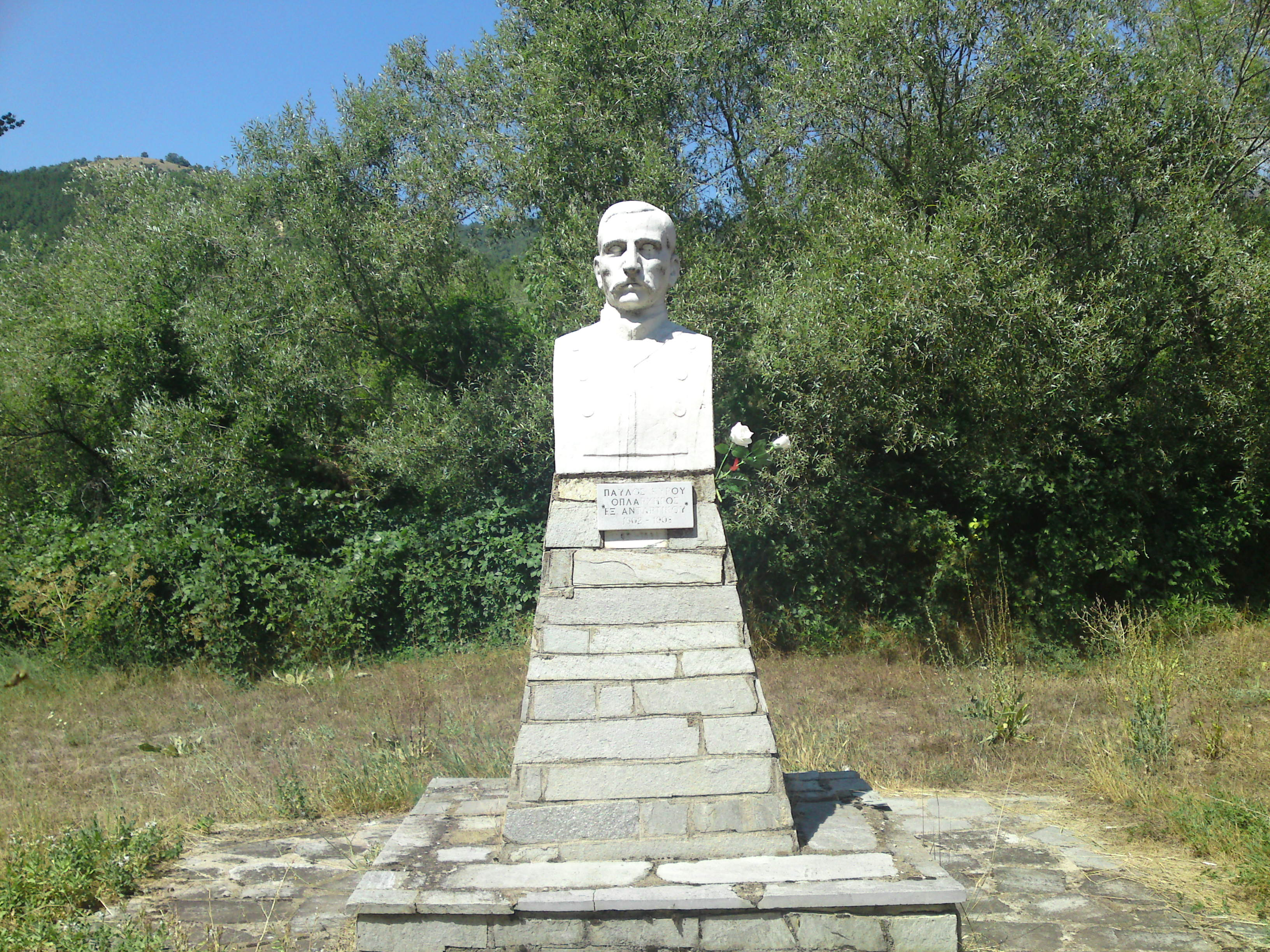 Bust of Pavel Kirov in Zhelevo / Andartiko